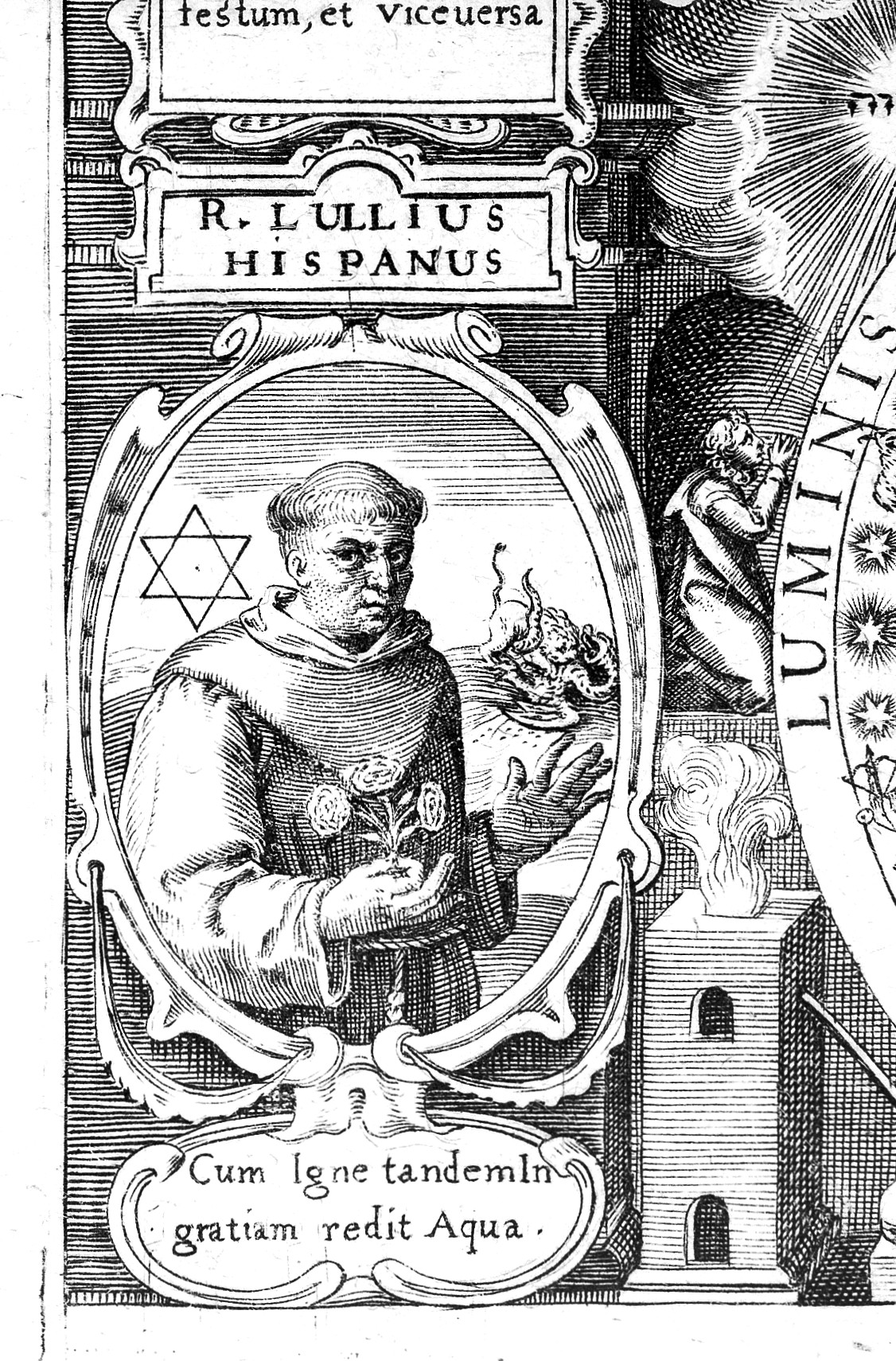 R. Lullius illustration Rare Books Keywords: Oswald Croll; Raymundus Lullius